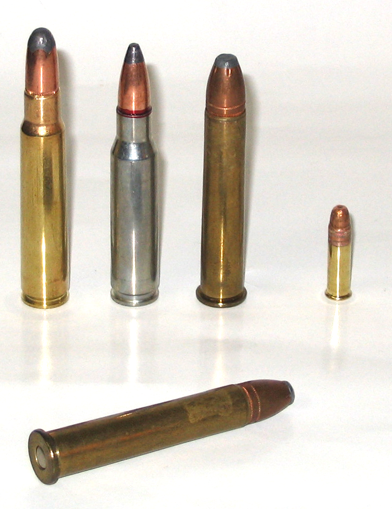 Photo of two .375 Winchester rifle cartridges with others for comparison. Left to right: 8mm Mauser, .308 Winchester, .375 Winchester, .22 Long Rifle. Foreground: .375 Winchester.